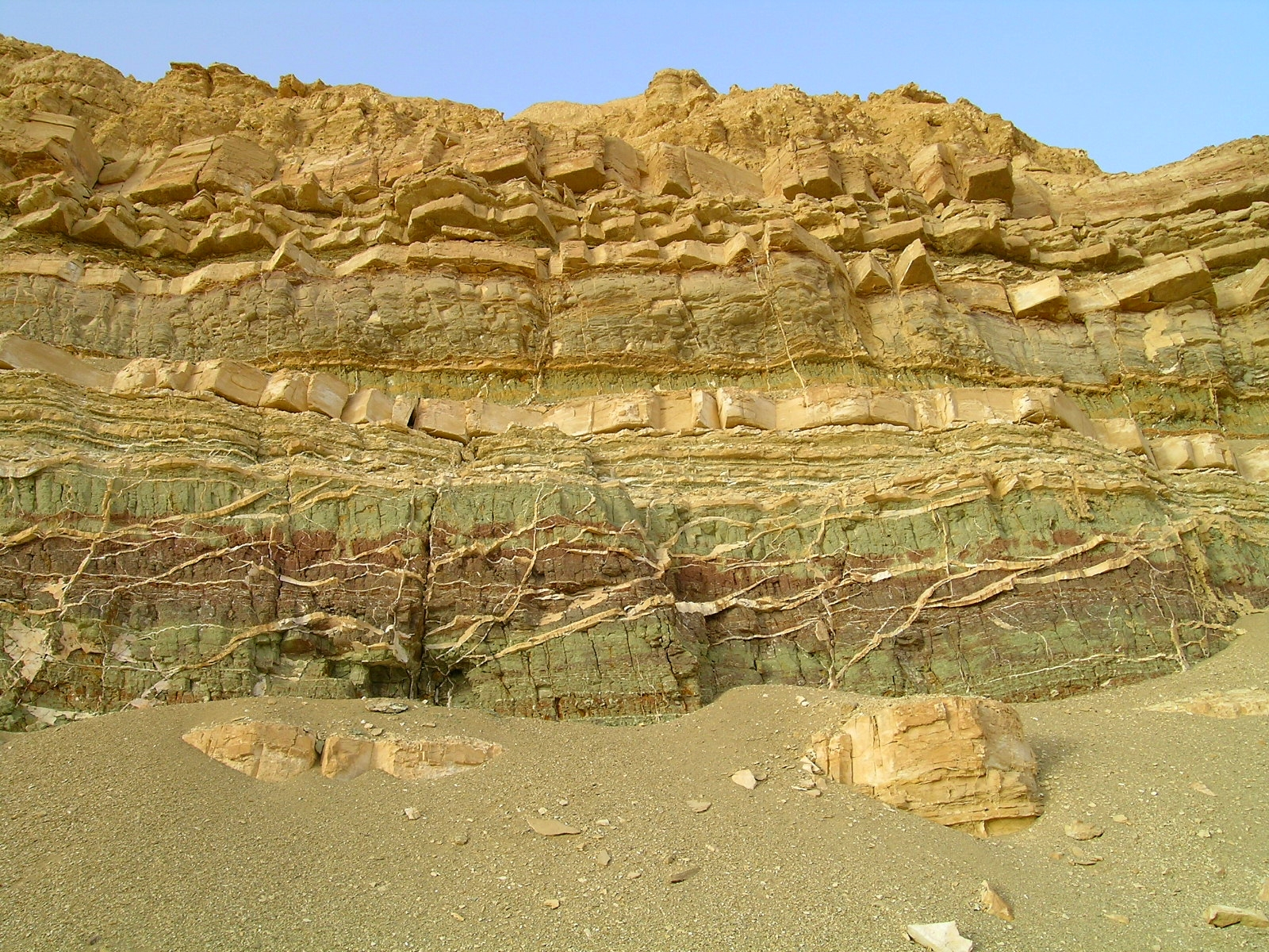 Ora formation